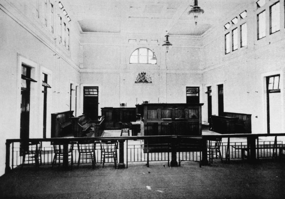 Gympie Courthouse, interior view, 1902 View of the main courtroom in Gympie Courthouse, 1902. Gympie is a city in south-eastern Queensland, situated on the Mary River about 162 kilometres north of Brisbane. Gympie is the centre of an important dairying and agricultural district. In the early days timber was a significant industry.